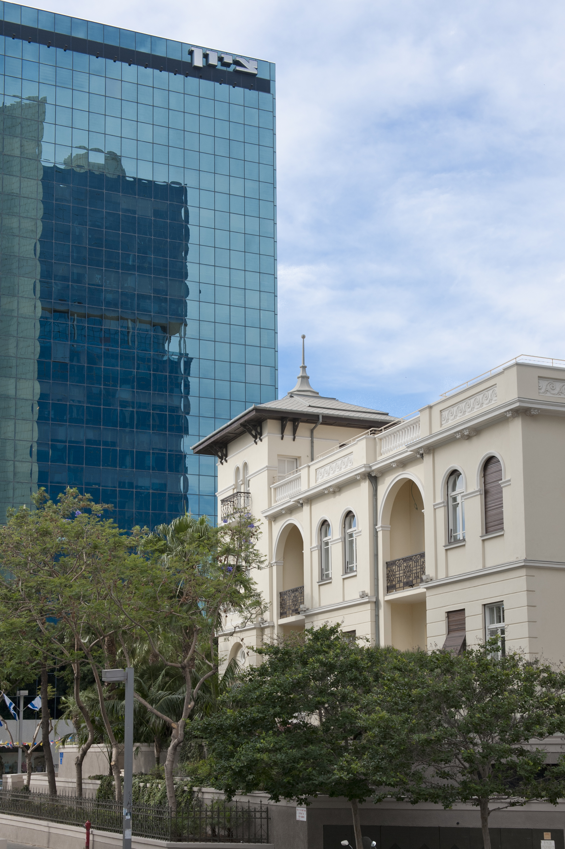 The south side of the Russian Embassy House at Tel Aviv